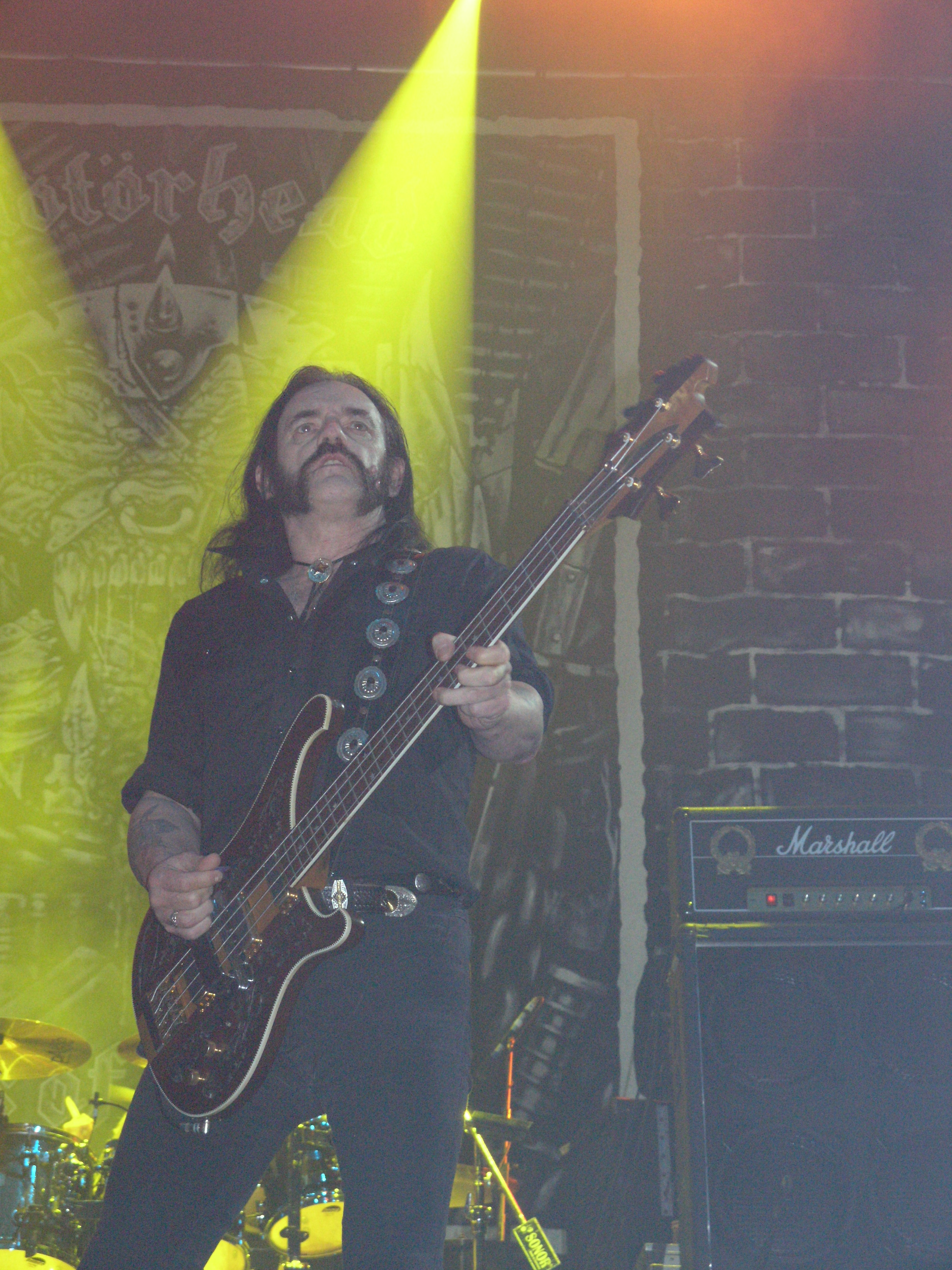 Lemmy Kilmister from Motörhead during Masters of Rock 2007 festival